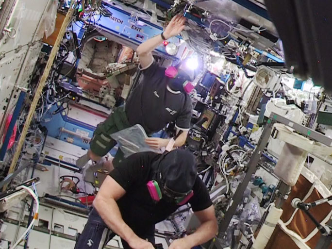 Astronauts Barry Wilmore (foreground) and Terry Virts re-entered the U.S. segment wearing protective masks.